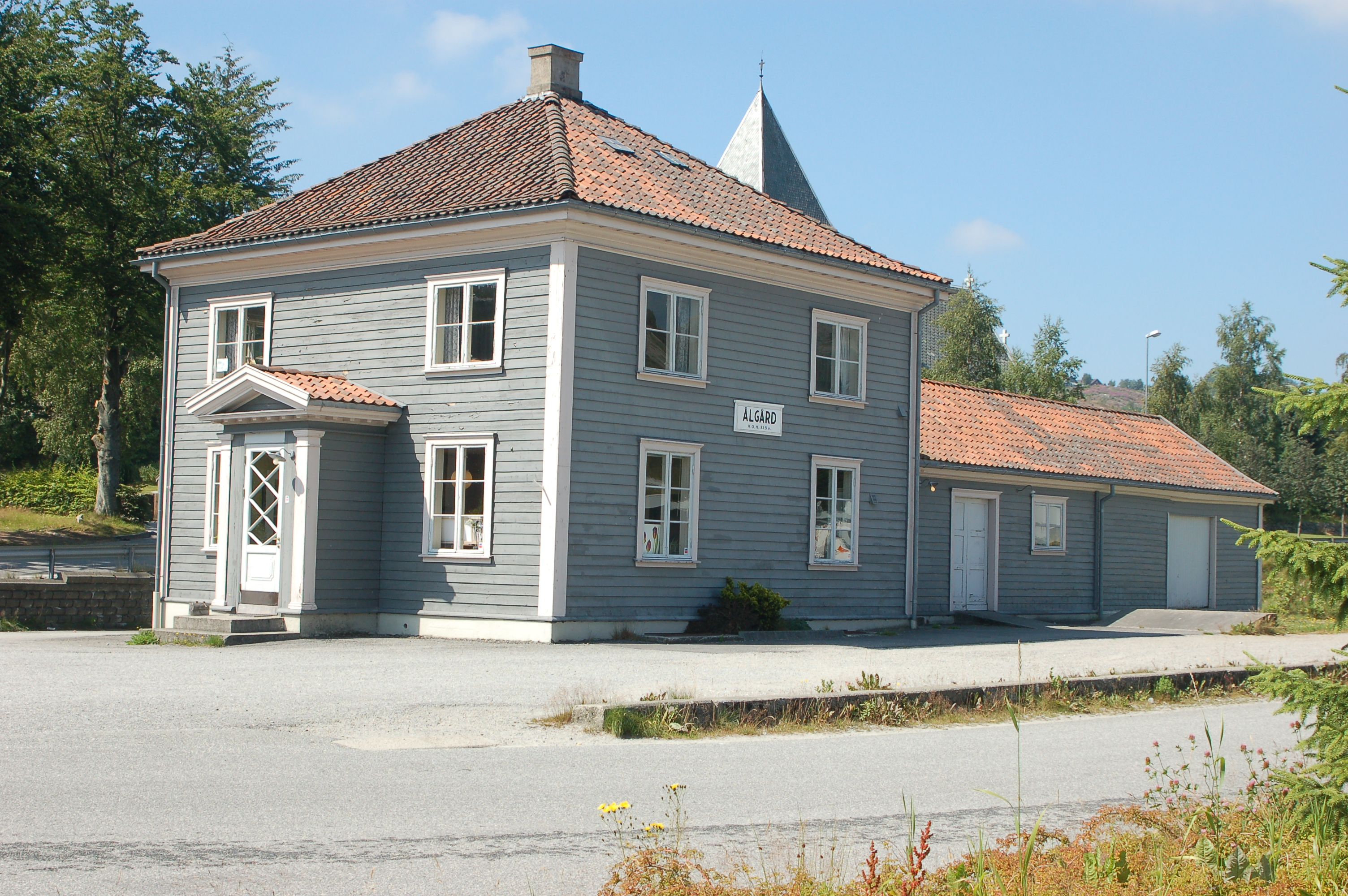 Ålgård Station, former trainstation (the railway is closed), Gjesdal, Rogaland, Norway